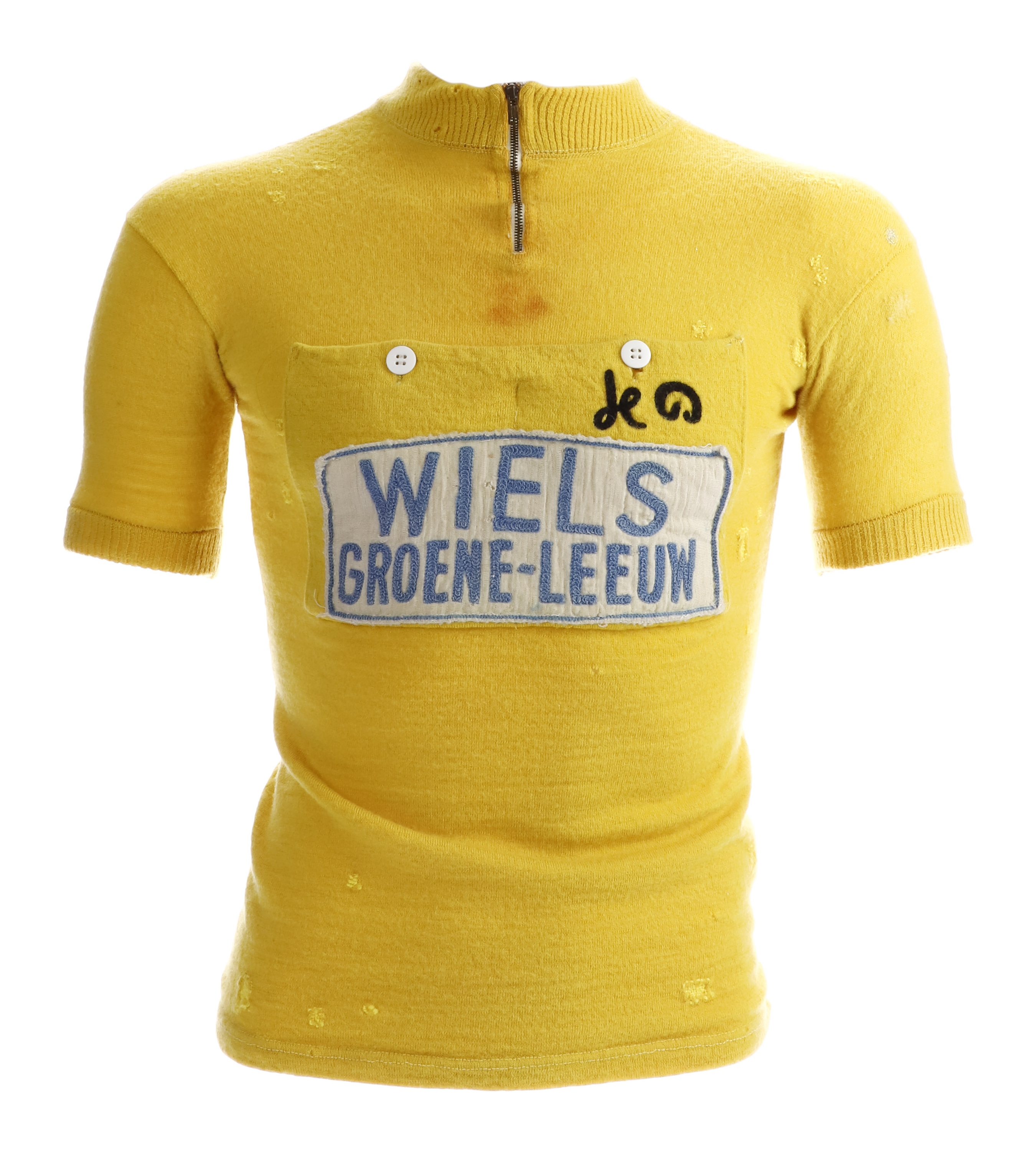 Angers, 28 June 1963. A third place in the time trial in Angers was enough for Gilbert Desmet to don the yellow jersey. Back in 1956, during his Tour of France debut, Smetje was allowed to try out the yellow jersey for two days. This time around, however, he was hankering for much more: securing a final position. The second-tier cyclist always excelled in the Tour de France. For ten days he was lost in a yellow reverie, but in the Alps he had to acknowledge the superiority of the more experienced climbers. The cyclist from West Flanders could also kiss goodbye to the podium after his stay in a crummy Grenoble hotel. His whole team fell ill and one cyclist had to drop out of the race. Desmet also bowed out of the 17th stage because of an intestinal fungus infection. Farewell dream, farewell the Tour de France podium.